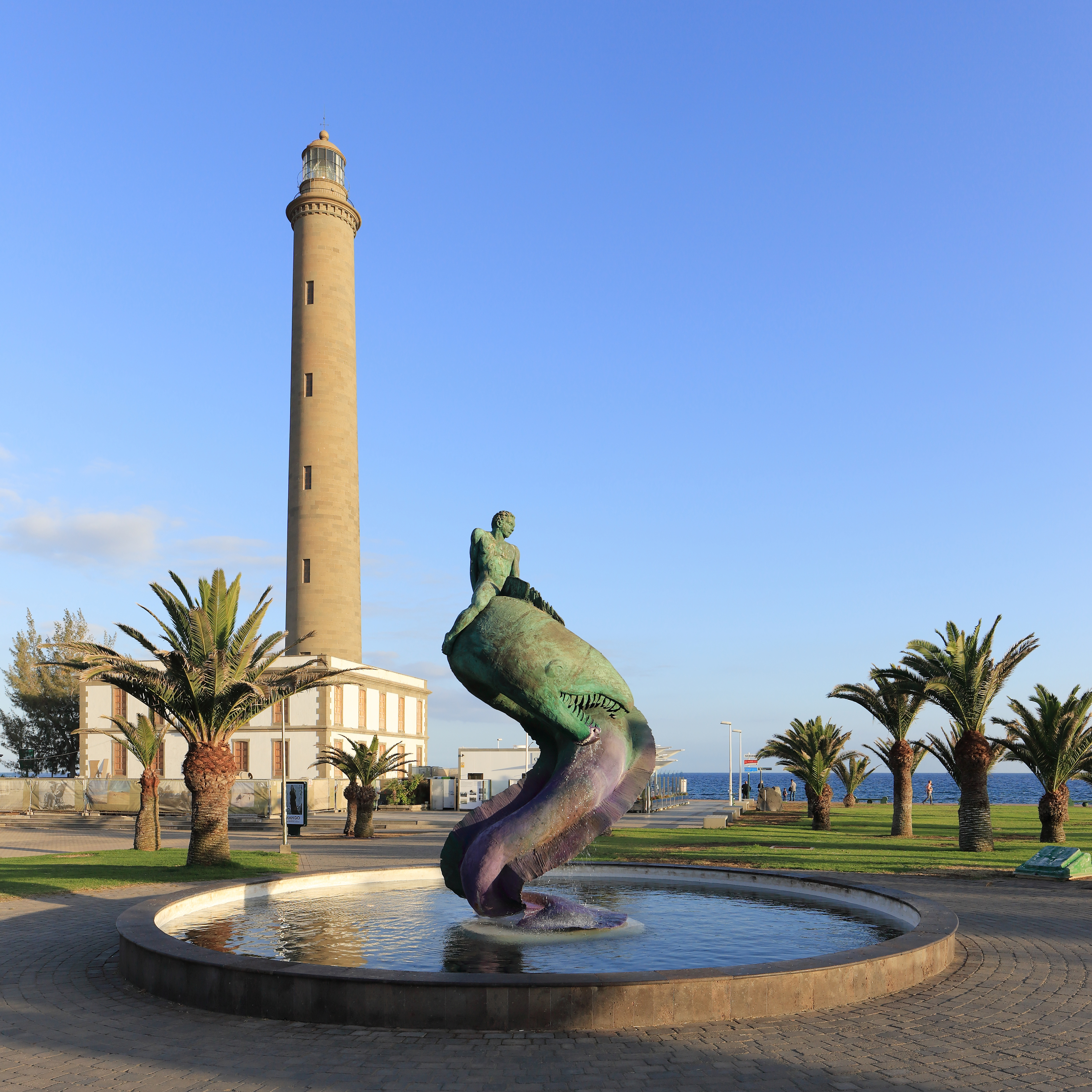 Faro de Maspalomas, Gran Canaria, with "Fuente de la Morena" (Morene Fountain)